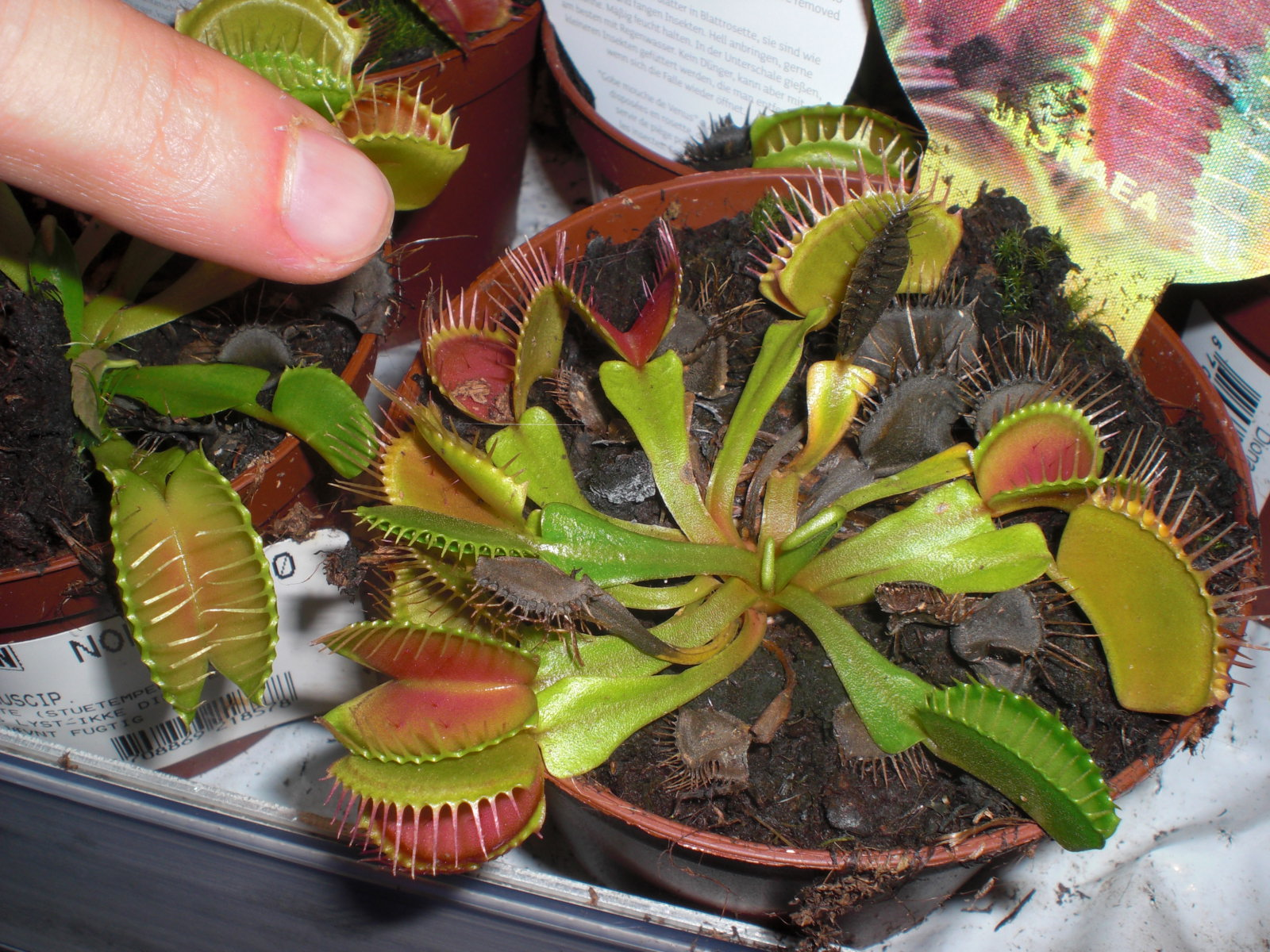 Dionaea muscipula also known as Venus Fly Trap